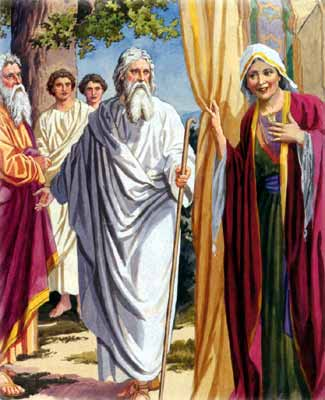 Sarah and Abraham hosting three angels